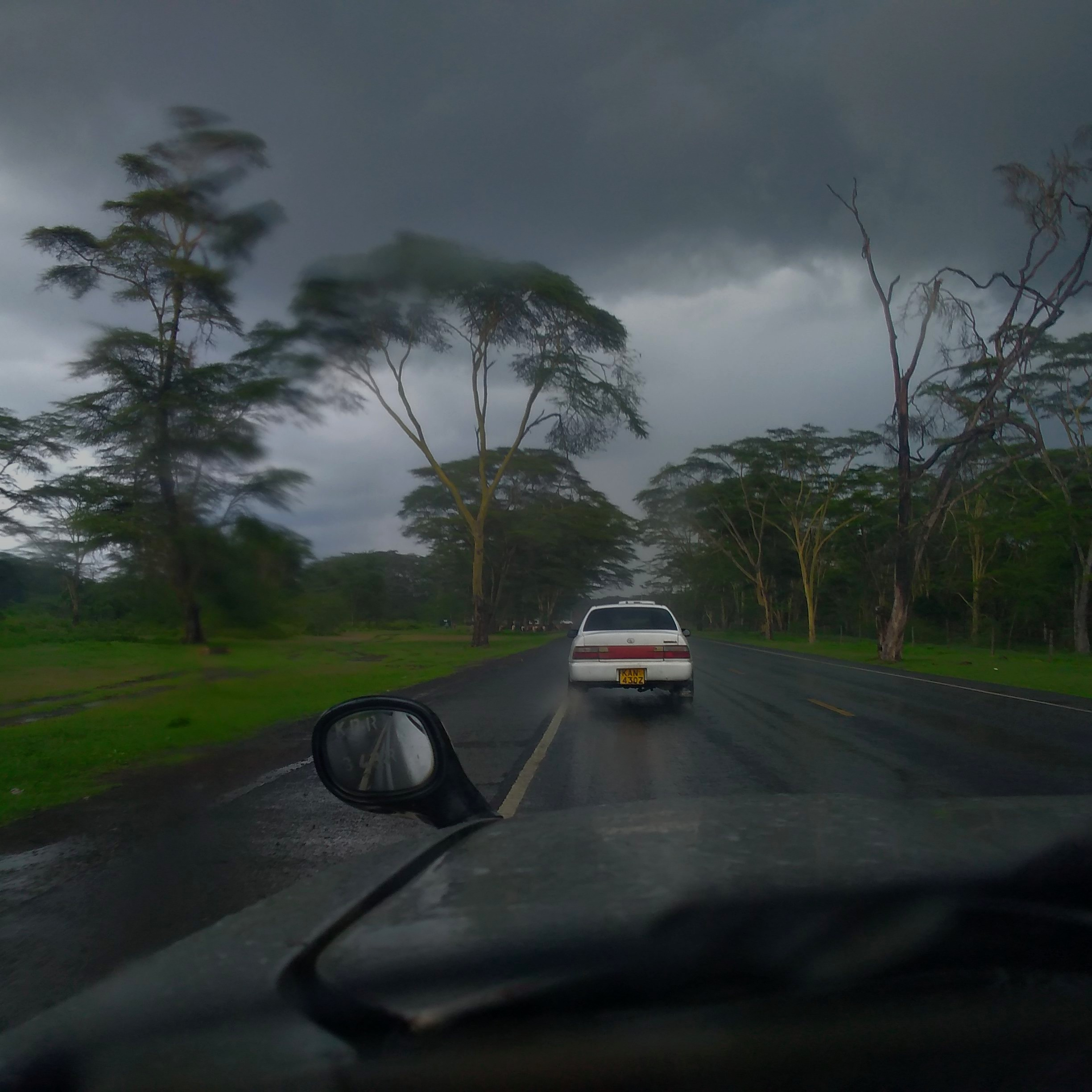 This is an image with the theme "Africa on the Move or Transport" from: Kenya